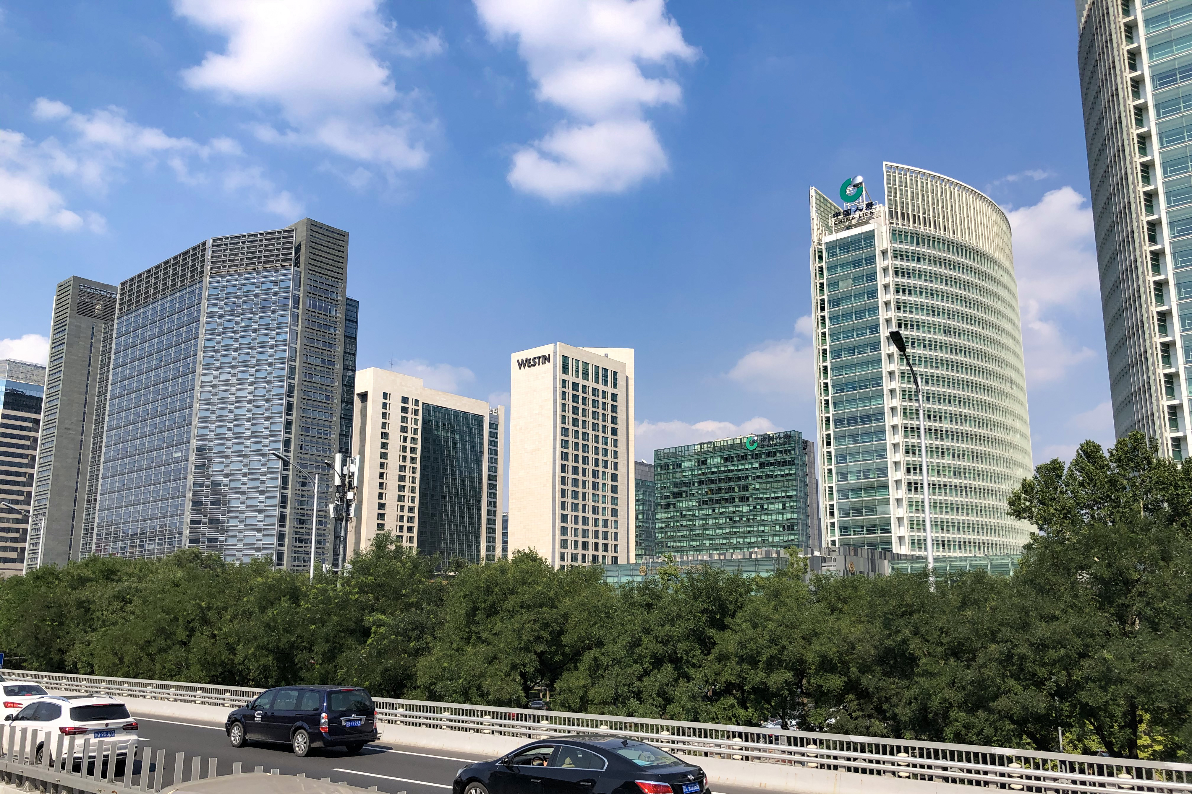 All taken from a T12.